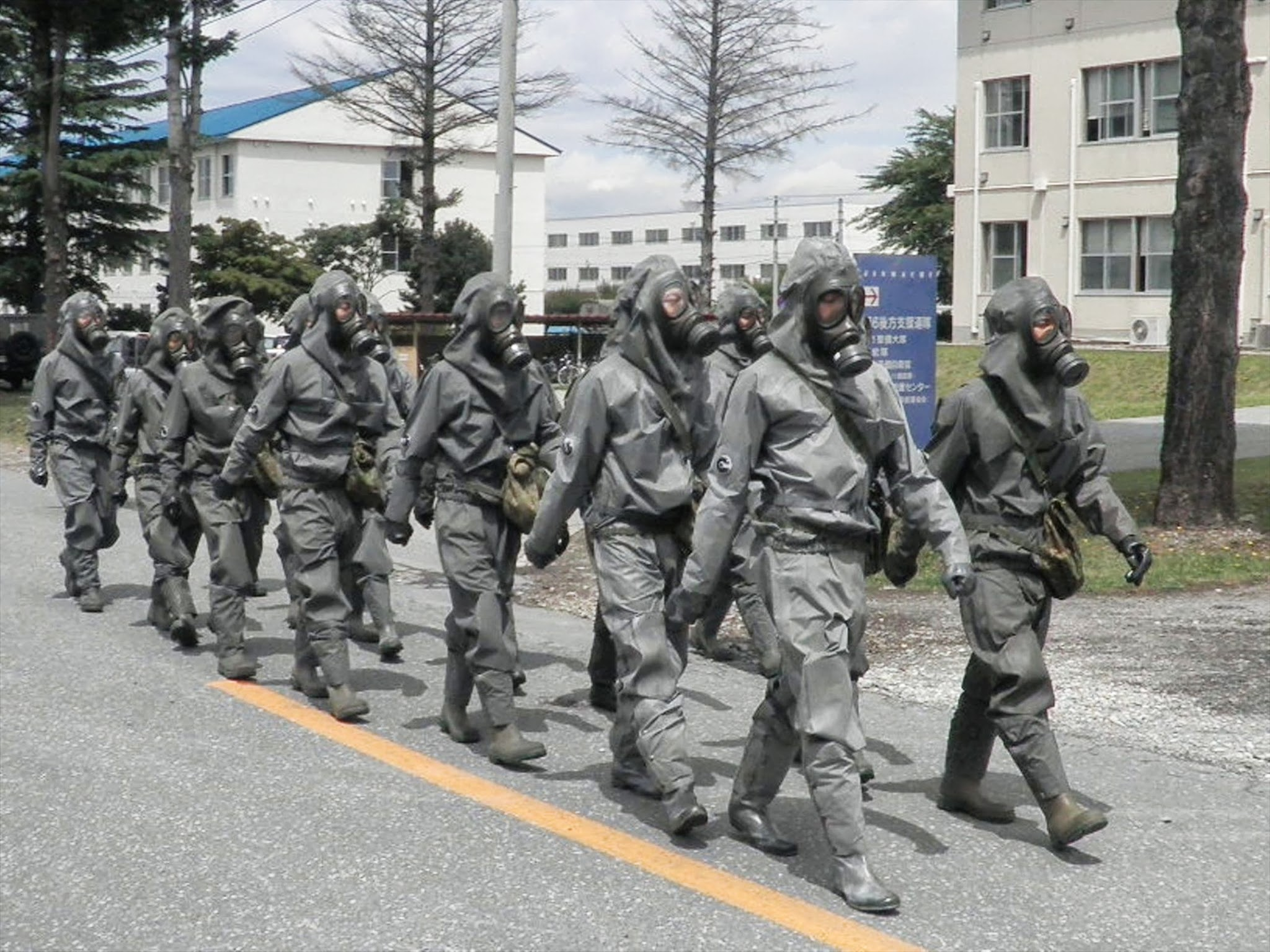 Title 化学防護衣で駐屯地内を練り歩く新隊員.JPG Album 教育訓練等 平成２５年度一般陸曹候補生（後期）・新隊員特技課程教育 （第６特殊武器防護隊・神町）